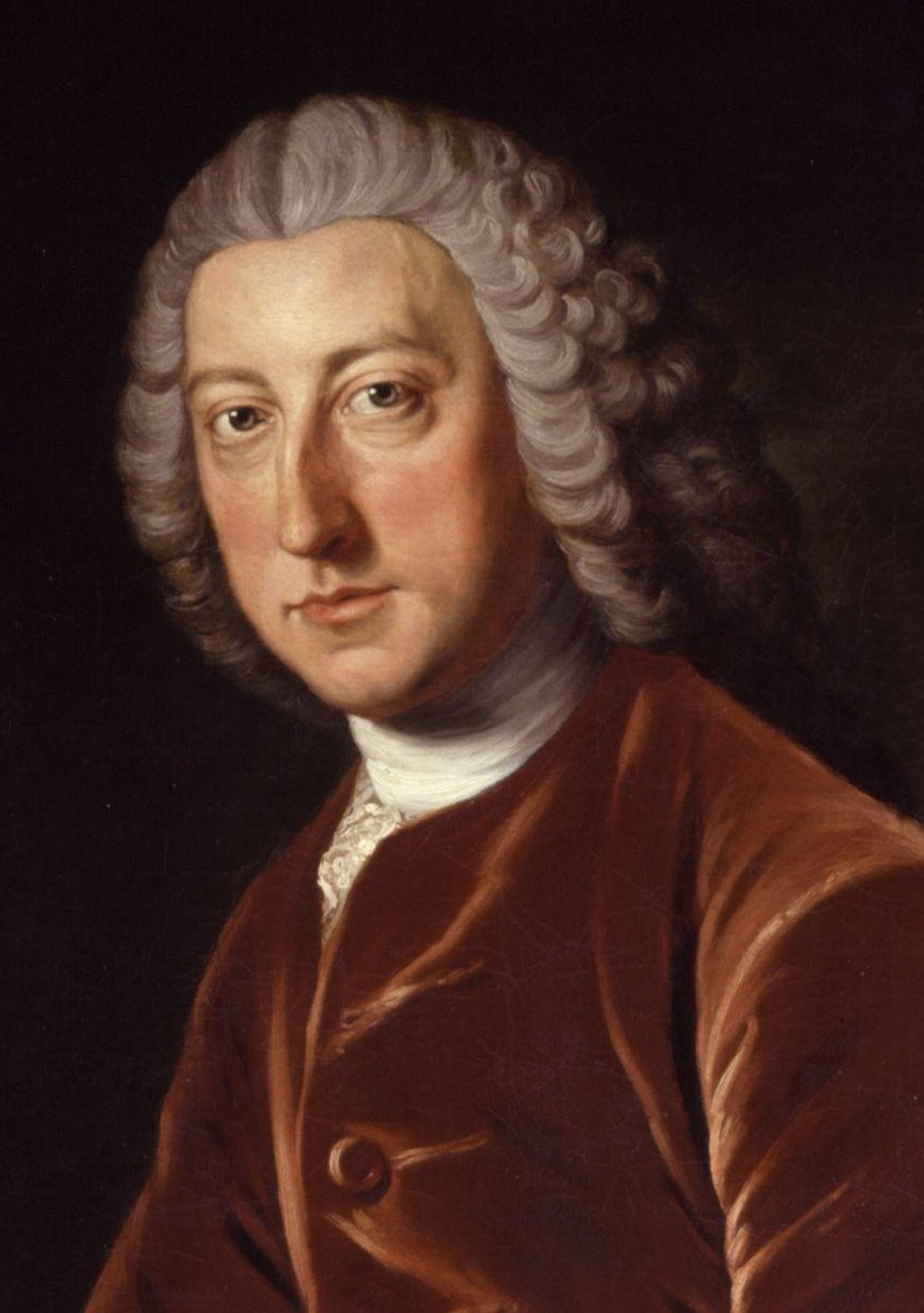 William Pitt, 1st Earl of Chatham, by William Hoare (died 1792). All images in this batch have been confirmed as author died before 1939 according to the official death date listed by the NPG.